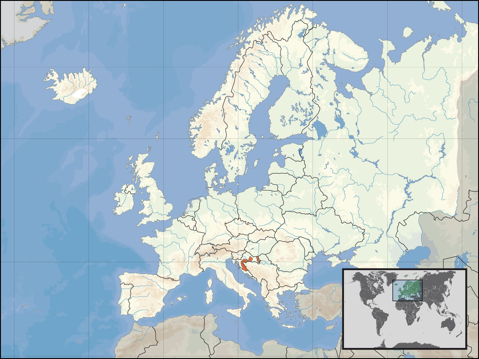 Localisation of Republic of Serbian Krajina